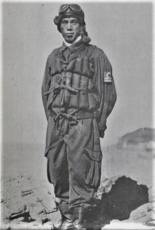 Tadashi minobe